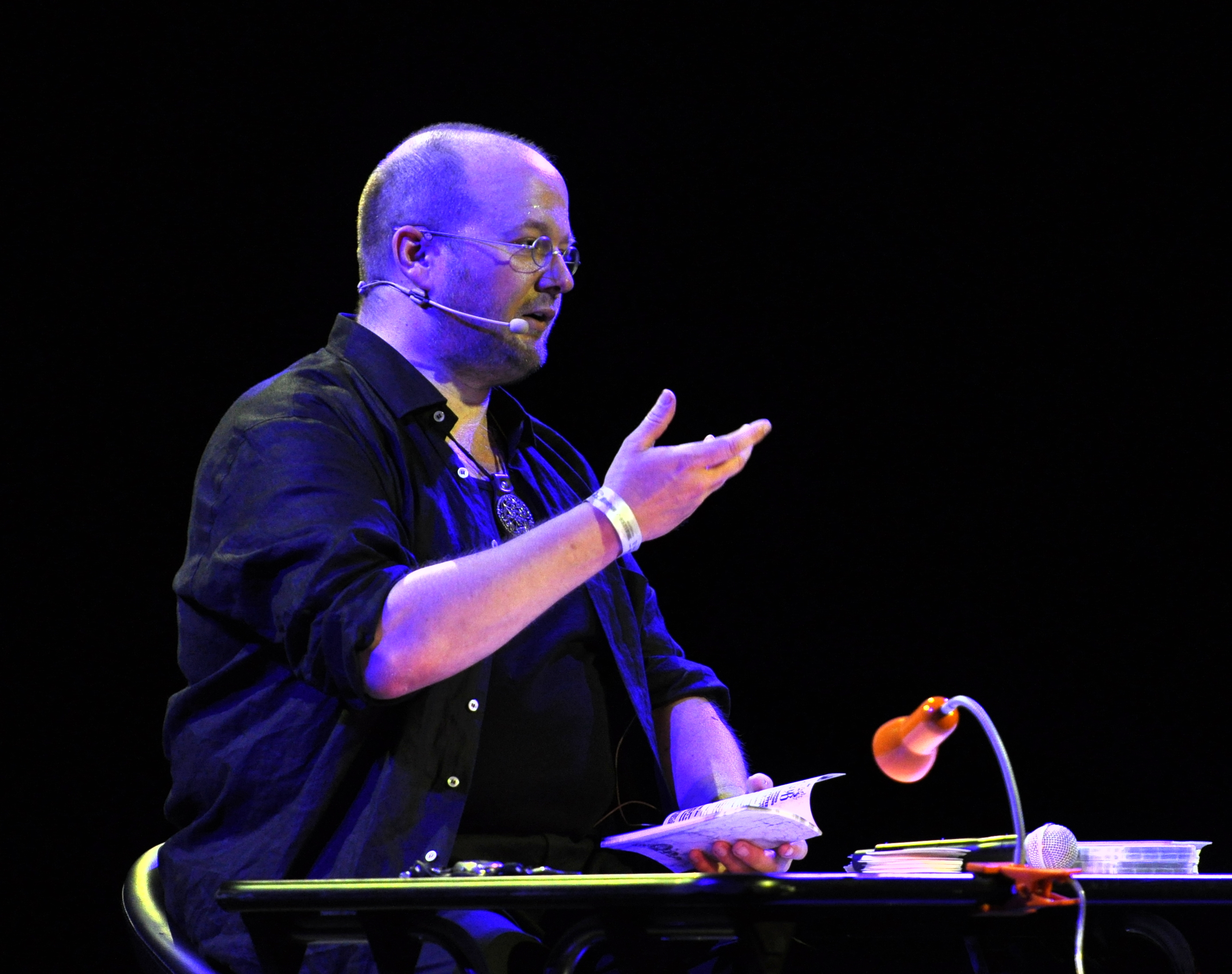 Christian von Aster at Amphi Festival 2013, Cologne, Germany